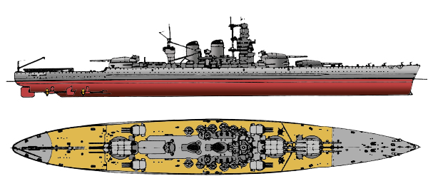 Littorio class Battleship drawing